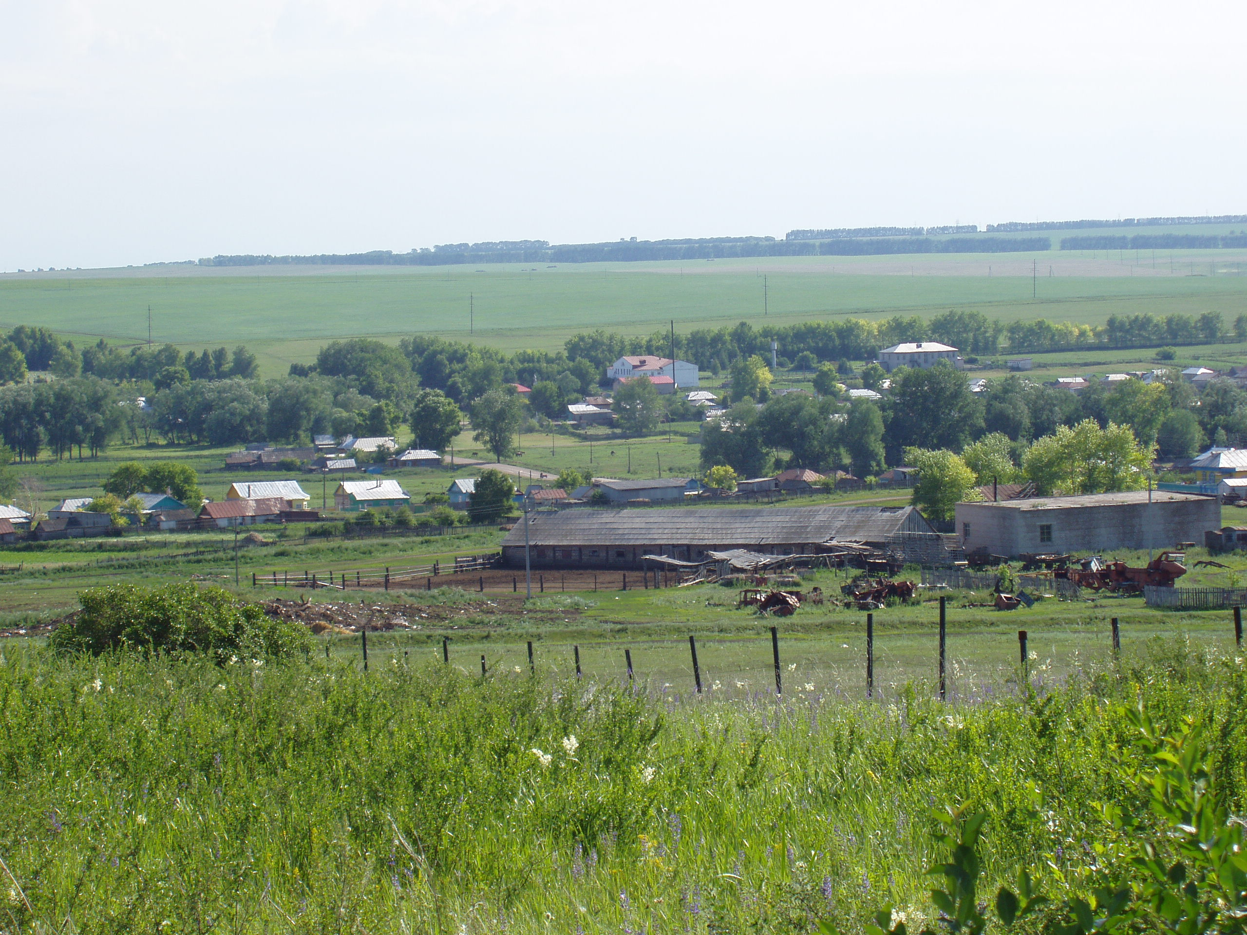 Starokalmashevo view from Moslem cemetery [June, 27 2004]